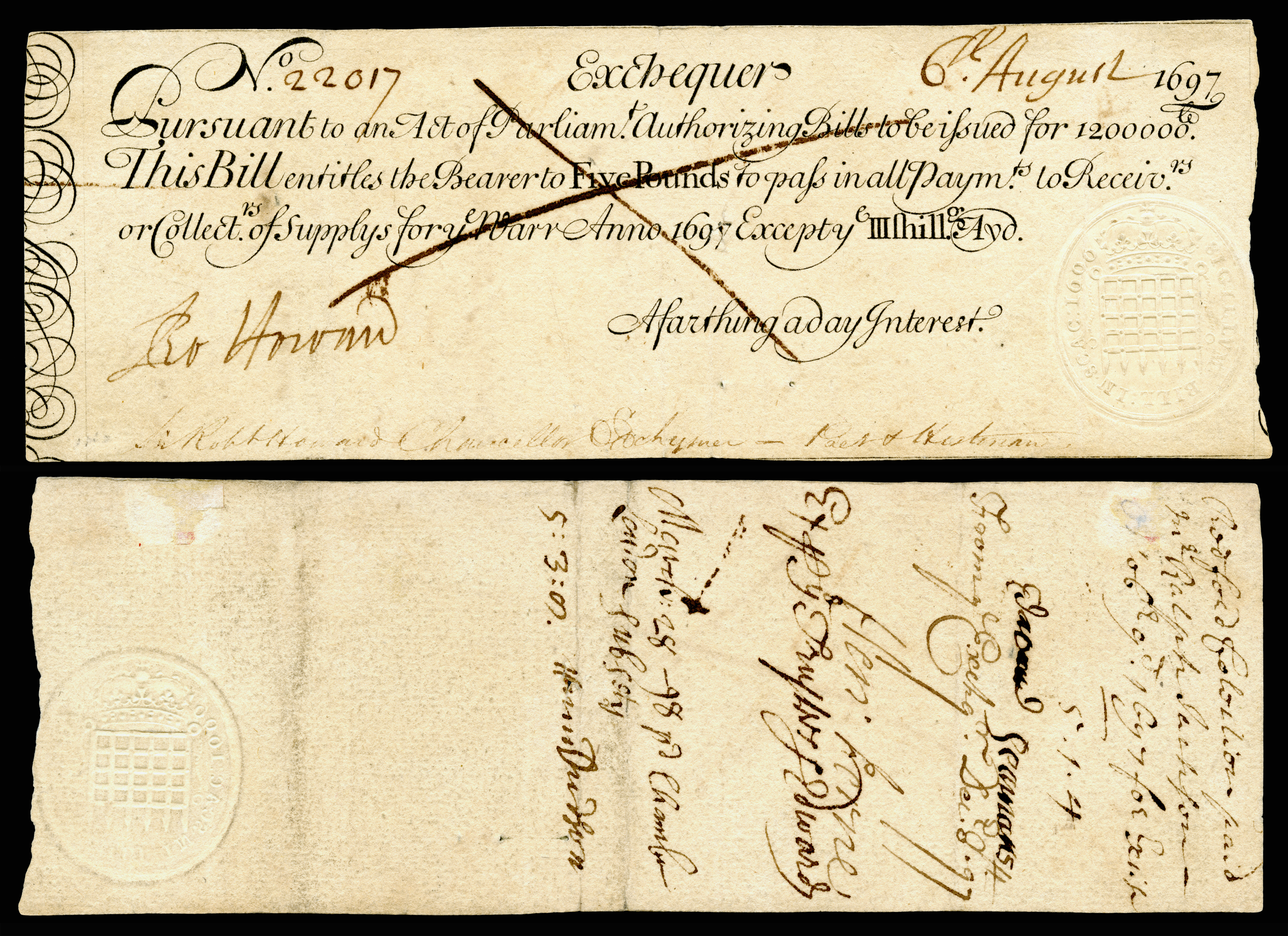 A 5 pound interest-bearing Kingdom of England Exchequer note dated 6 August 1697. These bills were first introduced one year earlier (1696) and paid interest for loans made to the government.[1] This note was issued during the reign of William III, less than a decade after England’s 1689 Bill of Rights was adopted, and a decade before Great Britain was formed.